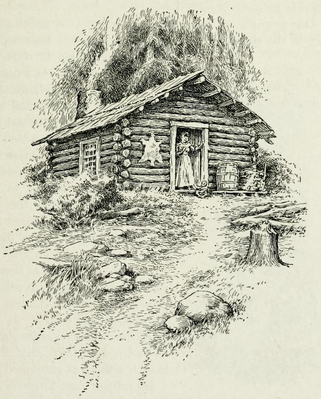 Ox-team pioneer Ezra Meeker (1830-1928) went over the Oregon Trail in 1852, this is a drawing of his first cabin at Kalama, Washington.